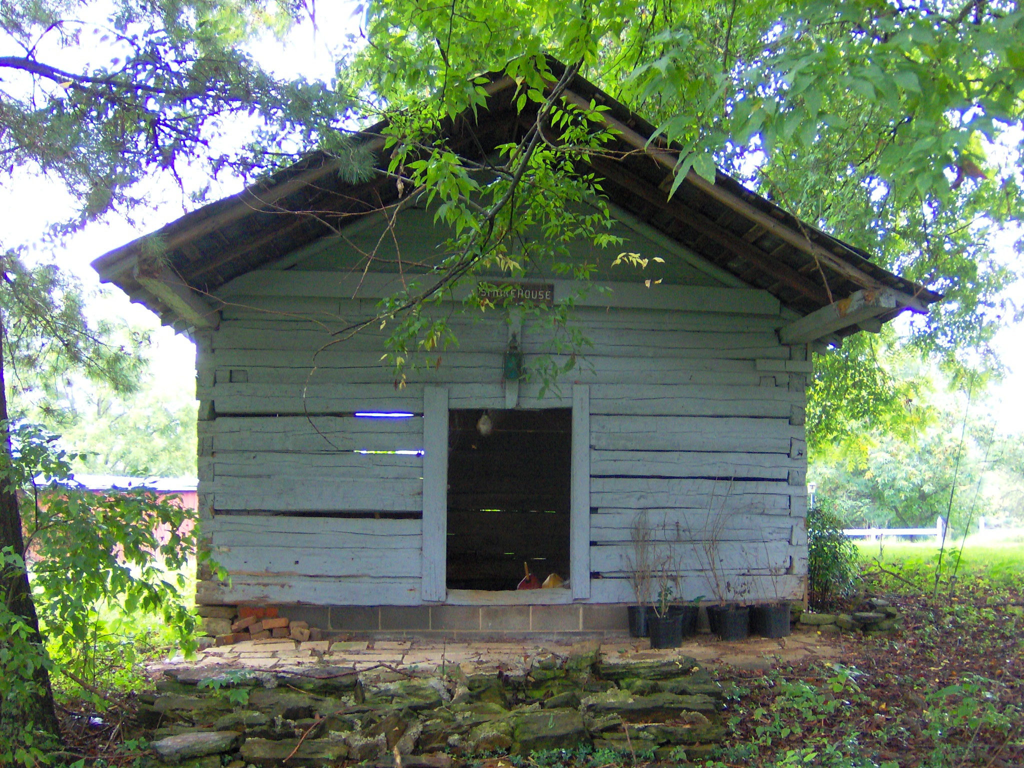 Smokehouse at Wheatlands, an antebellum plantation house and outbuildings in the Boyds Creek community near Sevierville, Tennessee, USA.